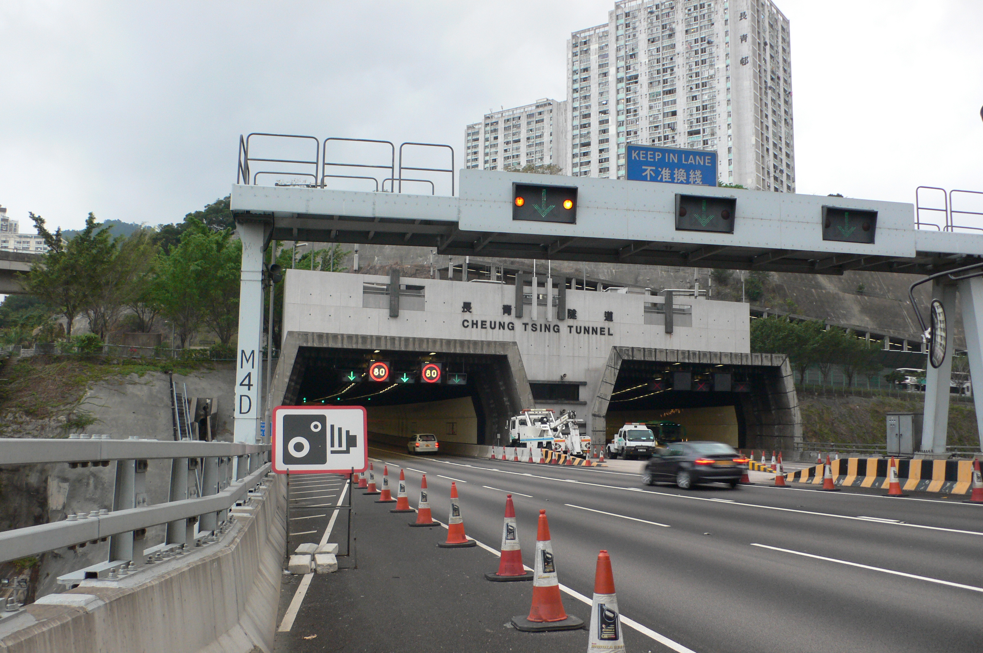 Cheung Tsing Tunnel, Hong Kong